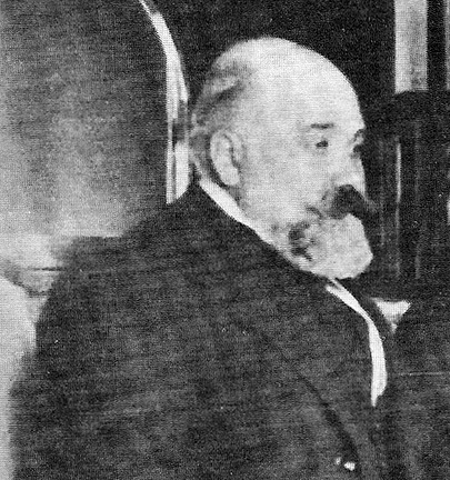 Italian politician Pietro Bertolini.